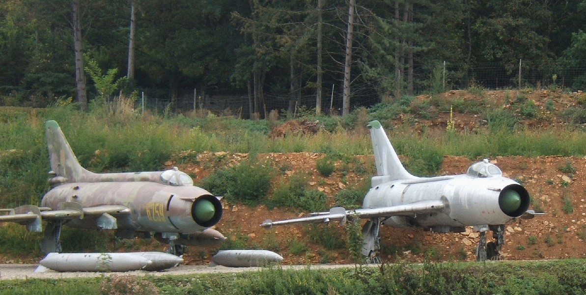 Sukhoi Su-17 (left) and Su-7 (right) side by side at the Chateau de Savigny les Beaune museum (in France)